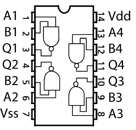 Drawn by Jjbeard from openly available, standard, IC datasheets.